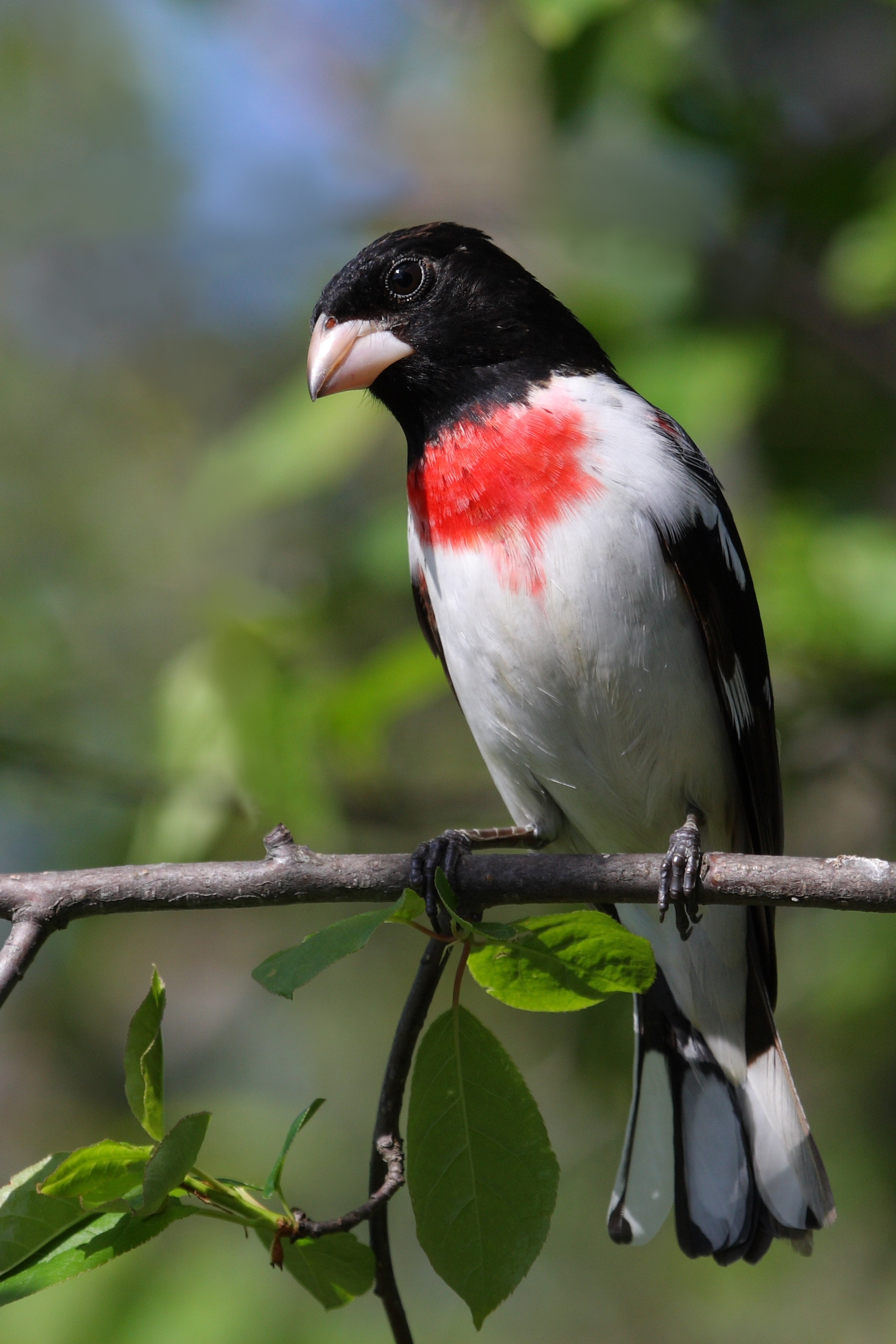 Rose-breasted Grosbeak (Pheucticus ludovicianus) male, Cap Tourmente National Wildlife Area, Quebec, Canada